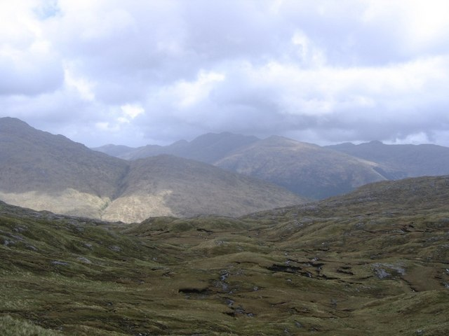 High boggy basin This vast, unfrequented area of bog, collects water that drains down into Glen Aladale and thence to Loch Sheil. The lower summit with the sun on it is Beinn Bhuidhe (500m), a small summit ridge on the corbett, Beinn Odhar Bheag.